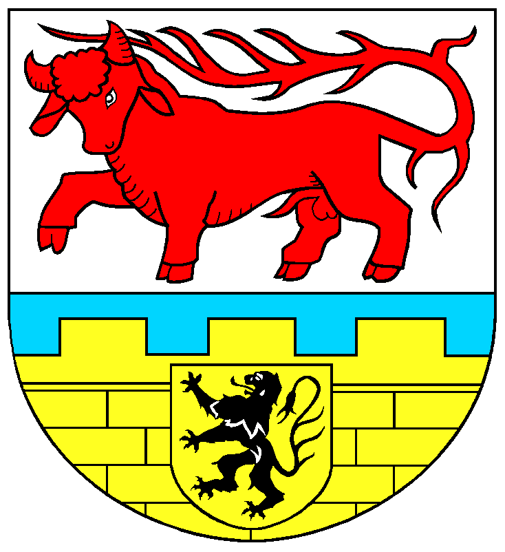 The arms were granted 25 November 1994. The upper part of the arms shows the bull of the Niederlausitz area and represents the former Calau district. The wall in the lower part is the old symbol for the Oberlausitz area and represents Senftenberg. The small shield shows the arms of the County of Meissen and represents some municipalities from the former district of Bad Liebenwerda, which were added to the district in 1993. Liebenwerda historically belonged to (Sachsen-)Meissen.